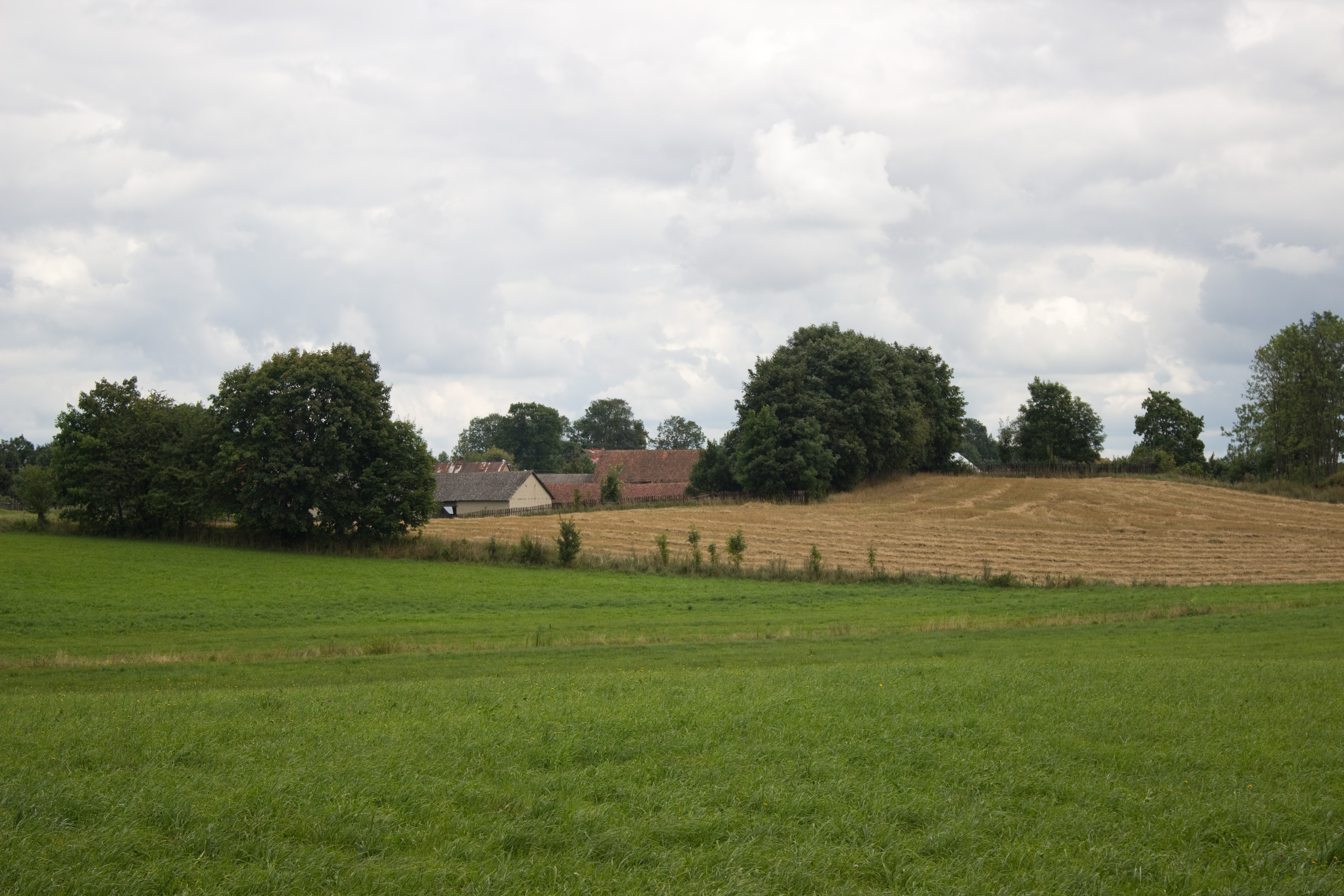 Markowskie, gmina Wieliczki, powiat ełcki, Warmian-Masurian Voivodeship